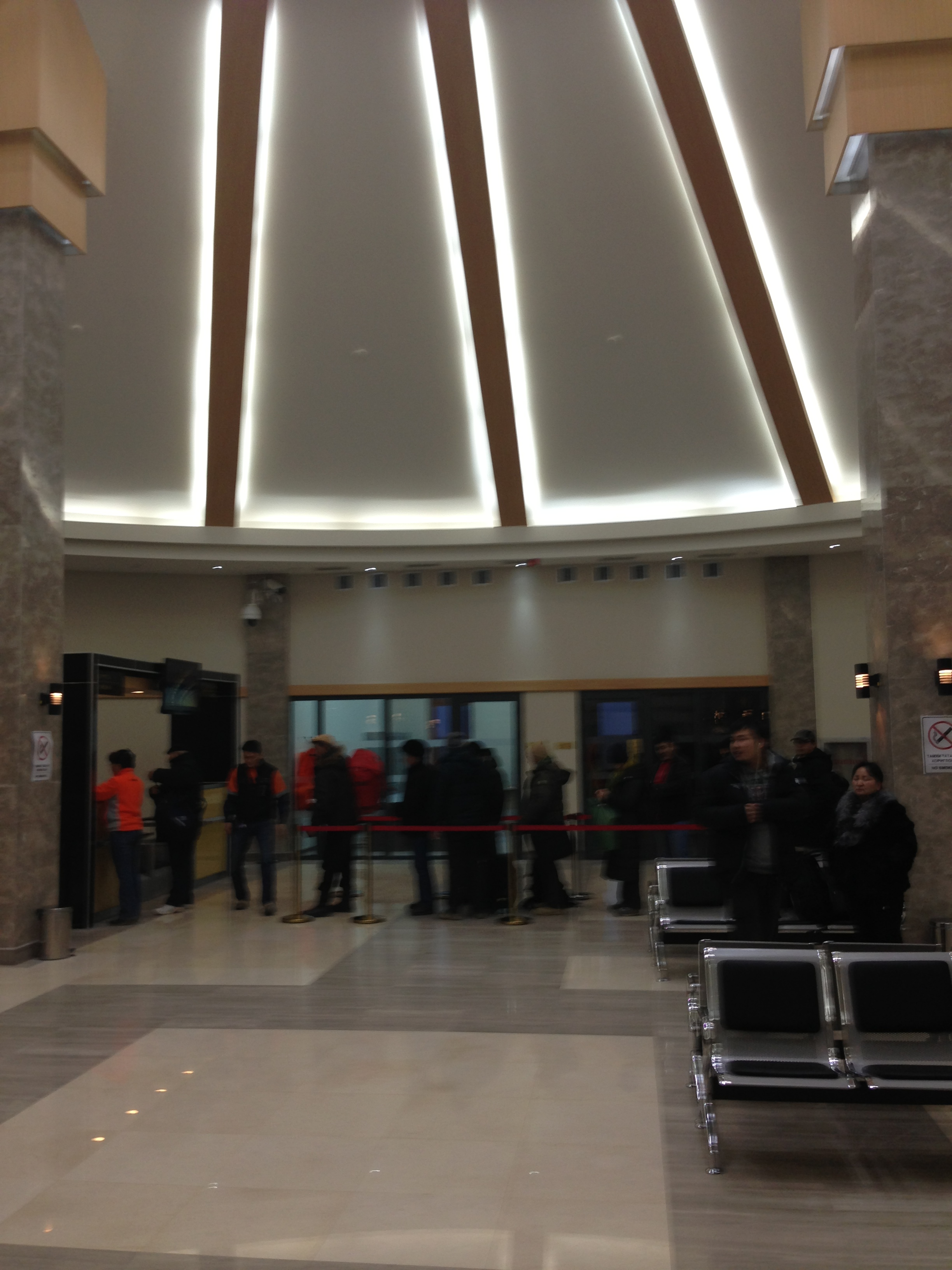 Khanbumbat Airport (Oyu Tolgoi Airport) check in.